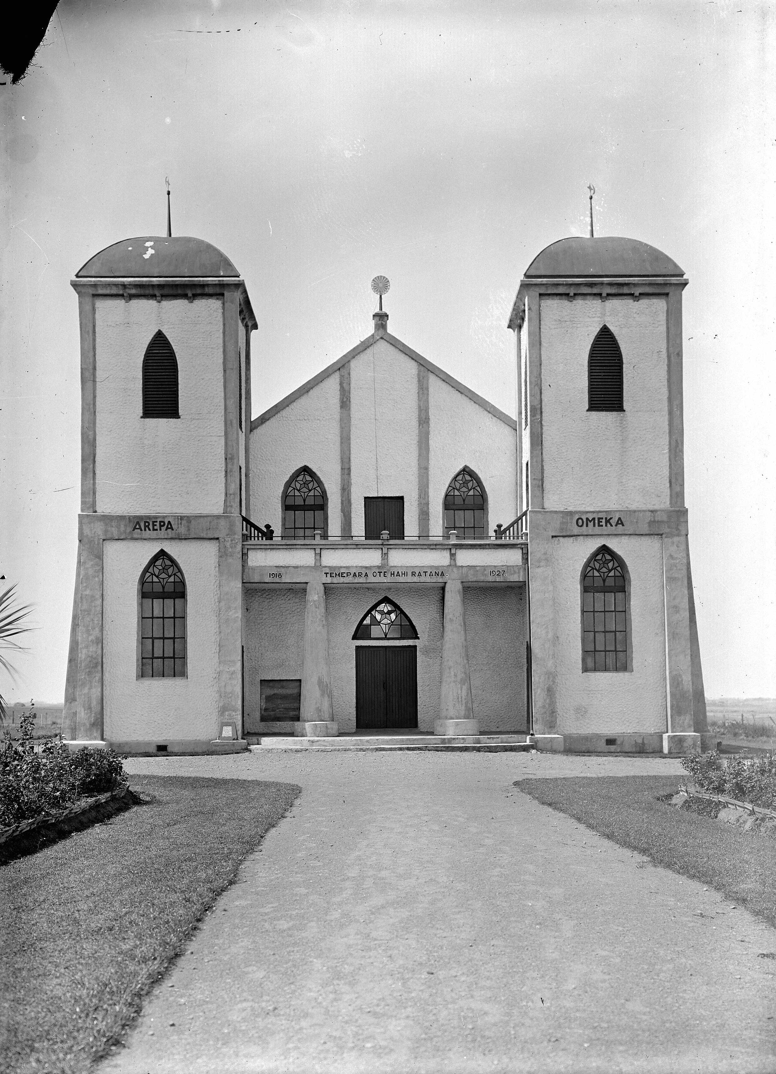 Temepara ote hahi Ratana - The Ratana temple at Ratana Pa. Photograph taken by Albert Percy Godber, circa 1930.